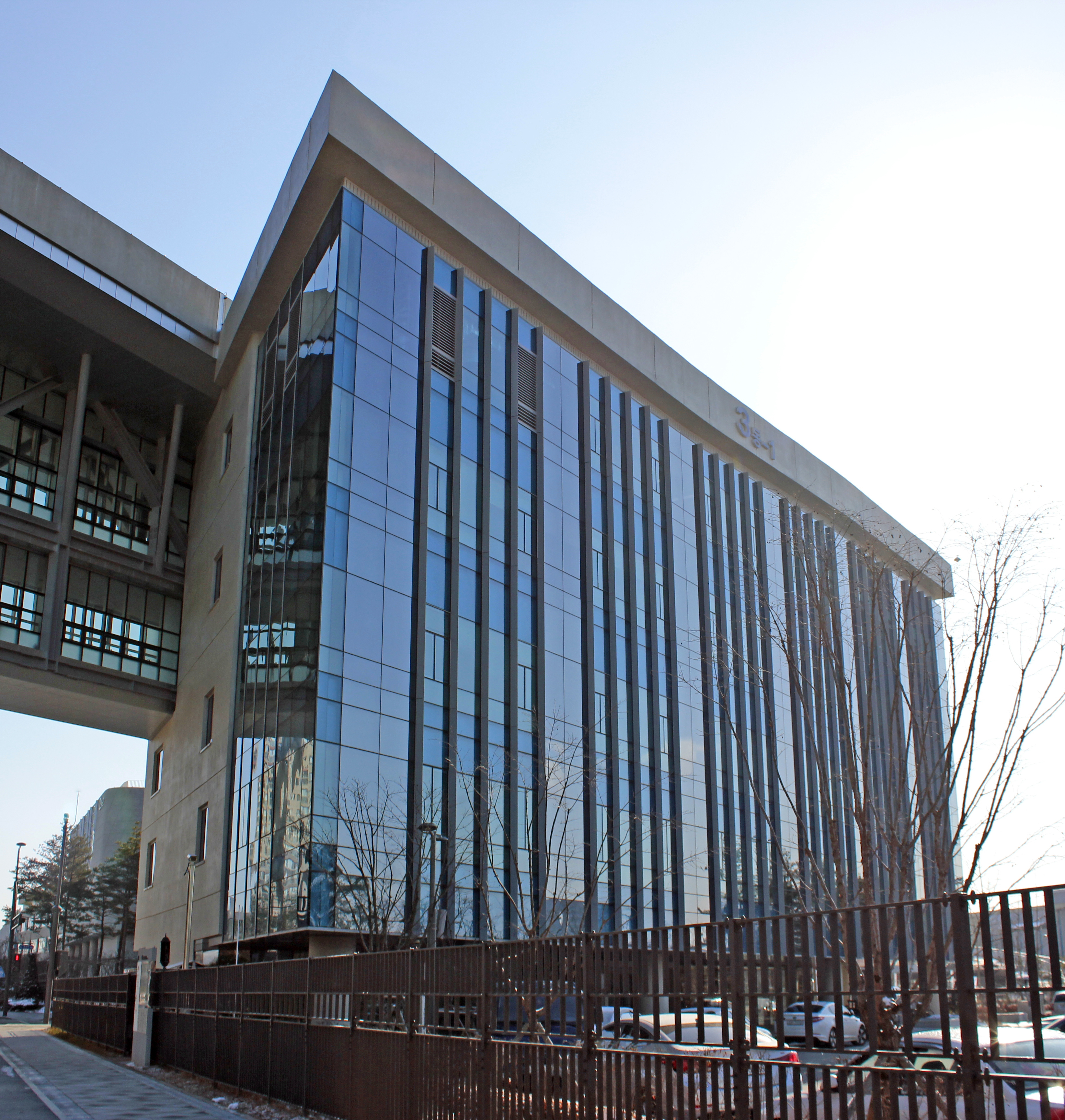 세종청사관리소 @Government Complex Sejong #3